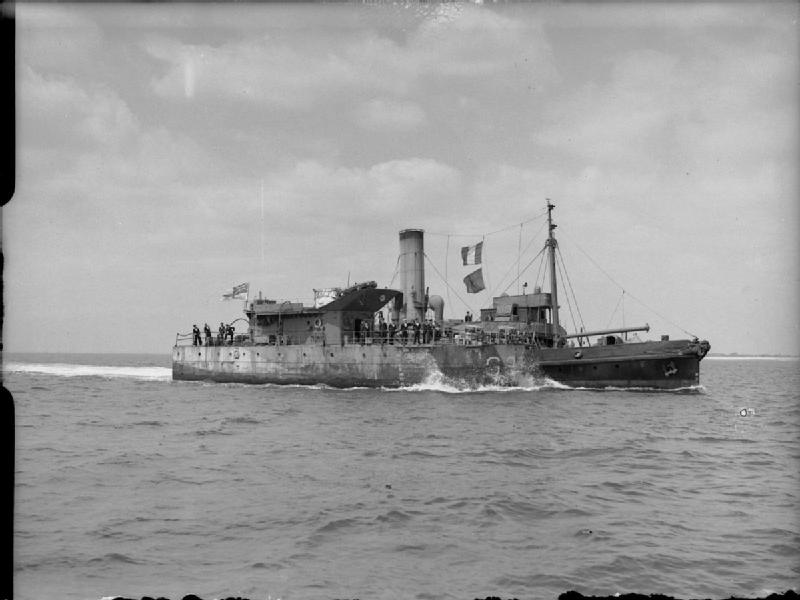 The Royal Navy during the Second World War The stern half of HMS PORCUPINE being towed into Portsmouth by the tug SWARTHY after the ship had been split in two by a torpedo in the Medterranean. The major portion of the ship eventually filled the role of Headquarters HQ ship of Landing Craft Command at Portsmouth.